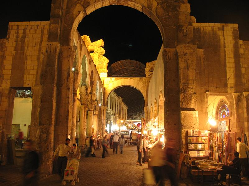 Jupiter Temple in Damascus at night.